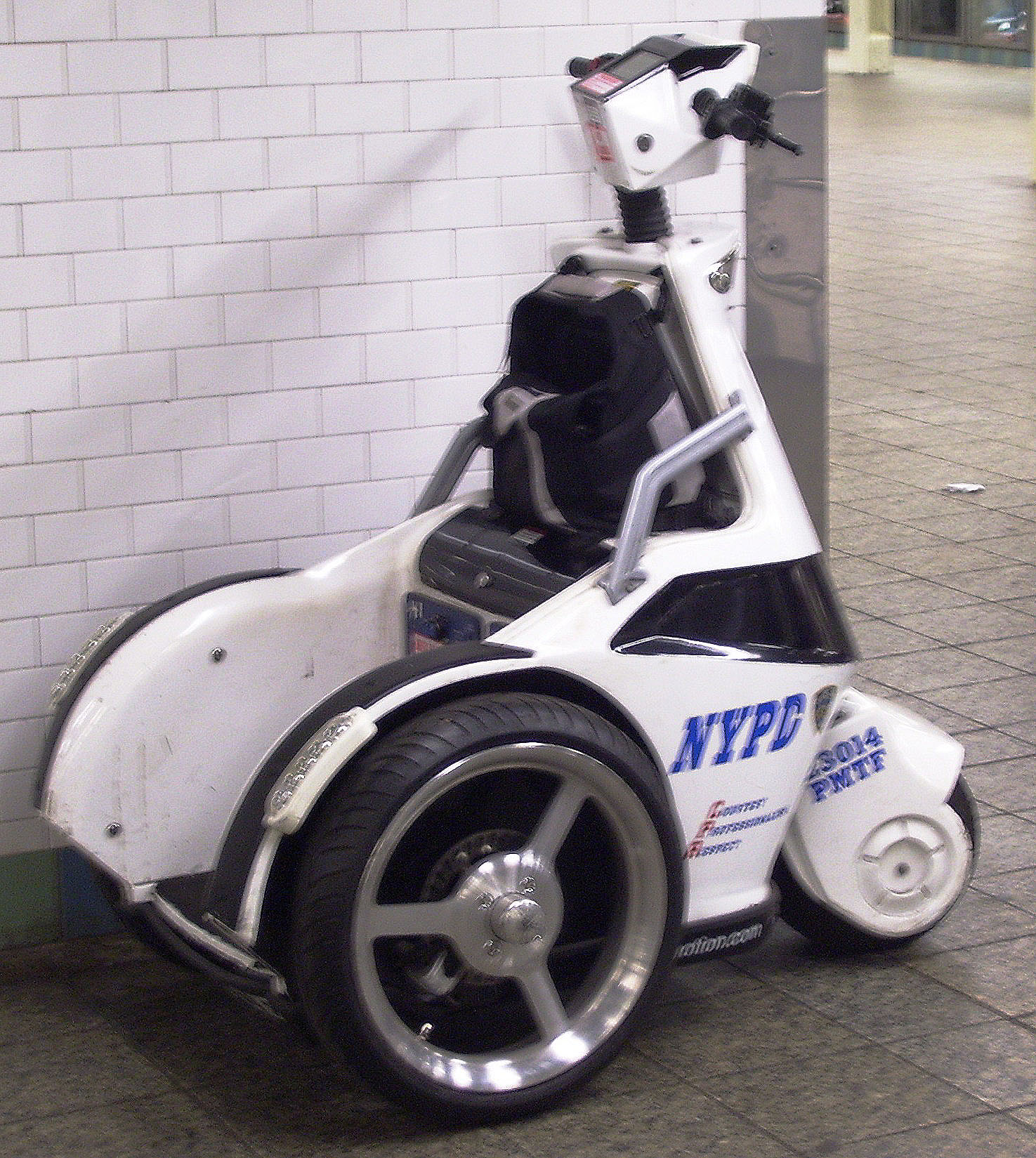 A NYPD three-wheeled vehicle used in subway stations, seen in the Times Square station.